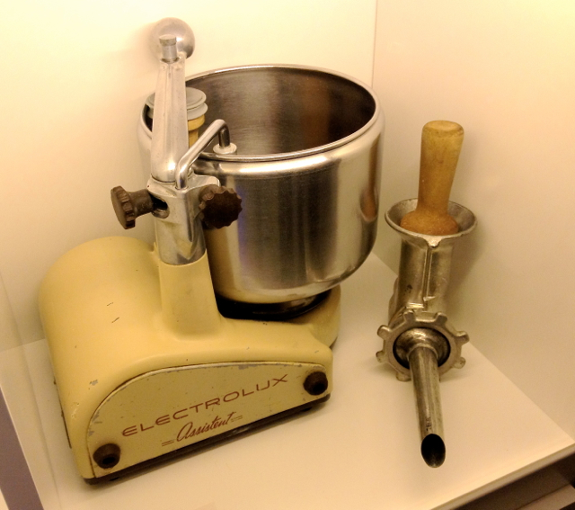 The kitschen appliance Electrolux Assistent displayed at the Museum of Technology (Tekniska museet) in Stockholm. Designer: Alvar Lenning